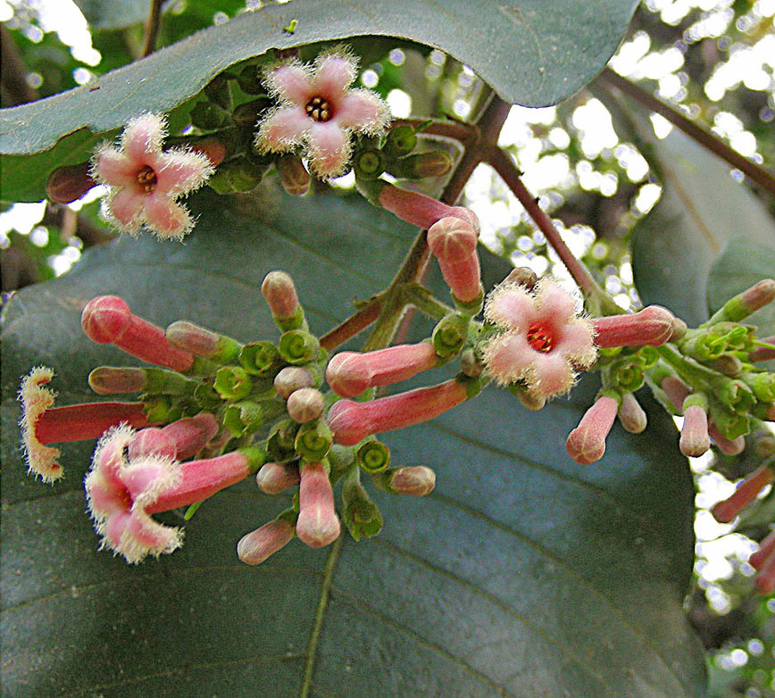 Native from Costa Rica to Bolivia, known as Quino. More widely planted as a quinine source. Photo from Colombia. In context at